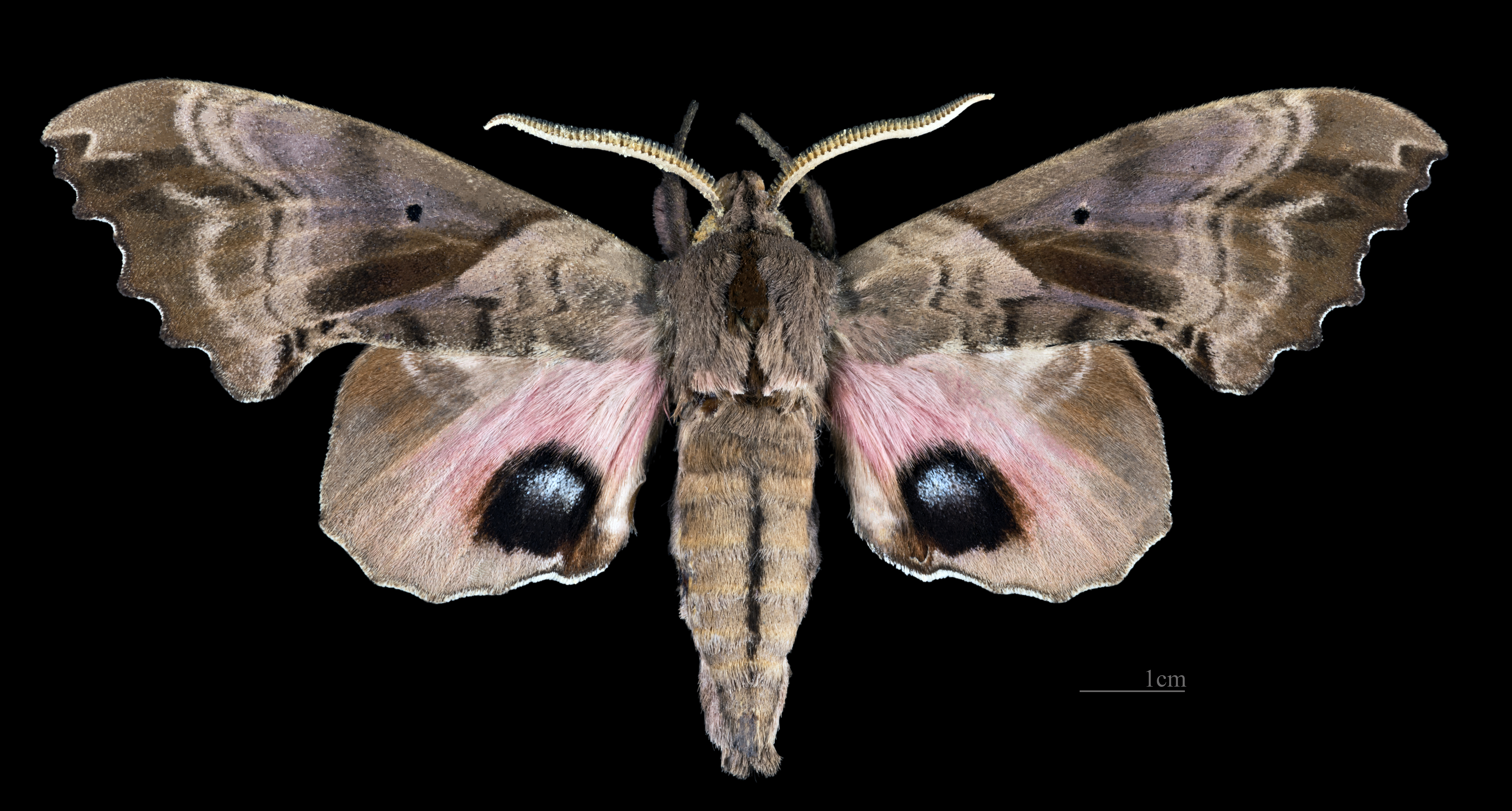 Blinded Sphinx - Dorsal side Collection of the Mathematician Laurent Schwartz